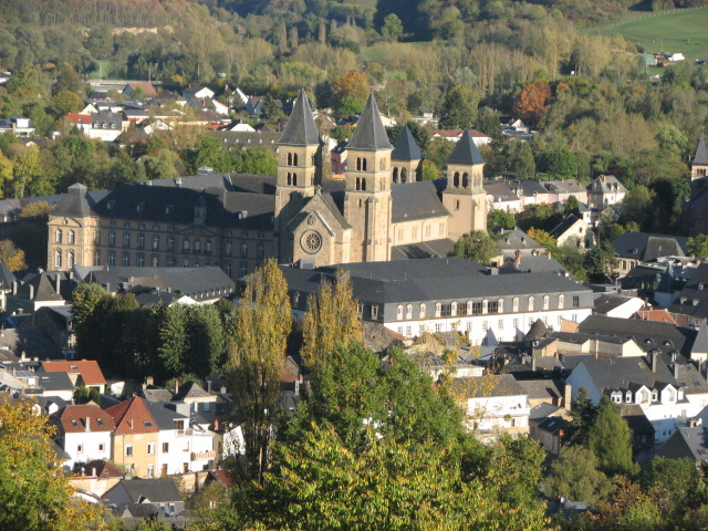 View from the nearest hill on the city and the cathedral